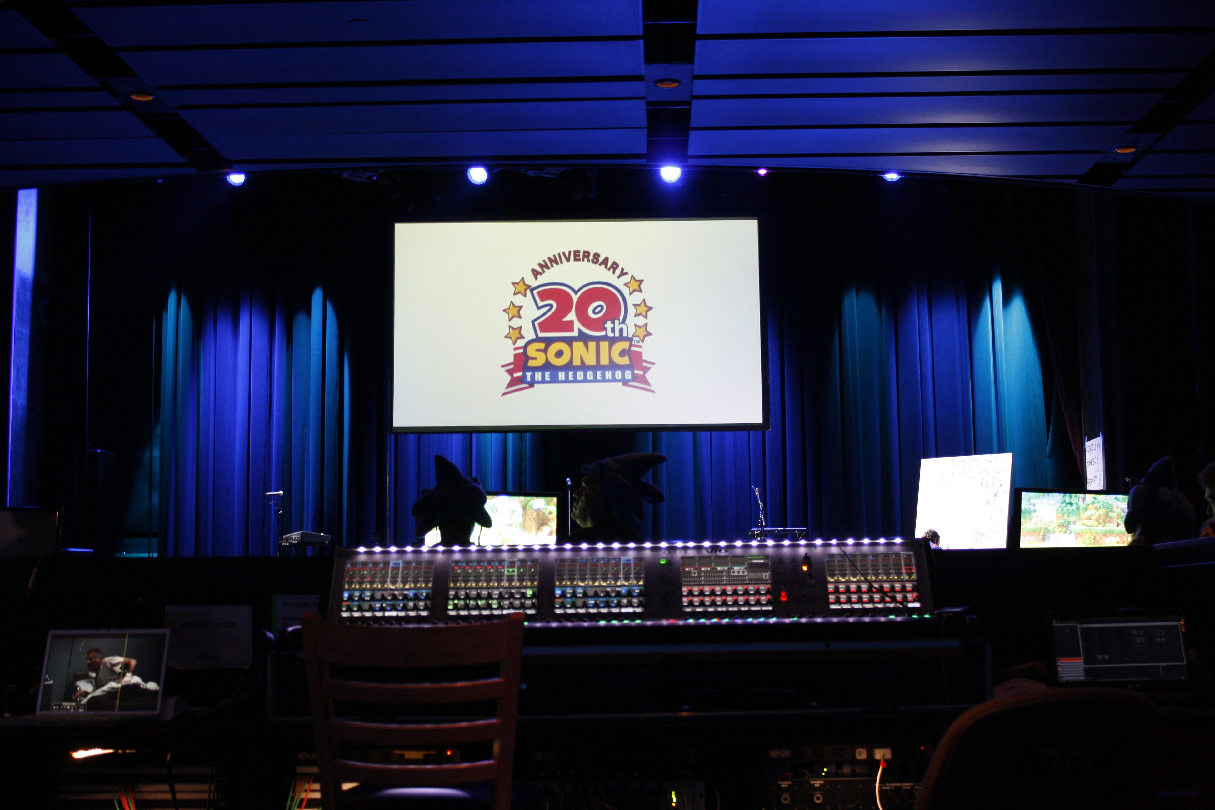 The control center for the stage in Club Nokia, where fans would soon receive many performances and surprises.